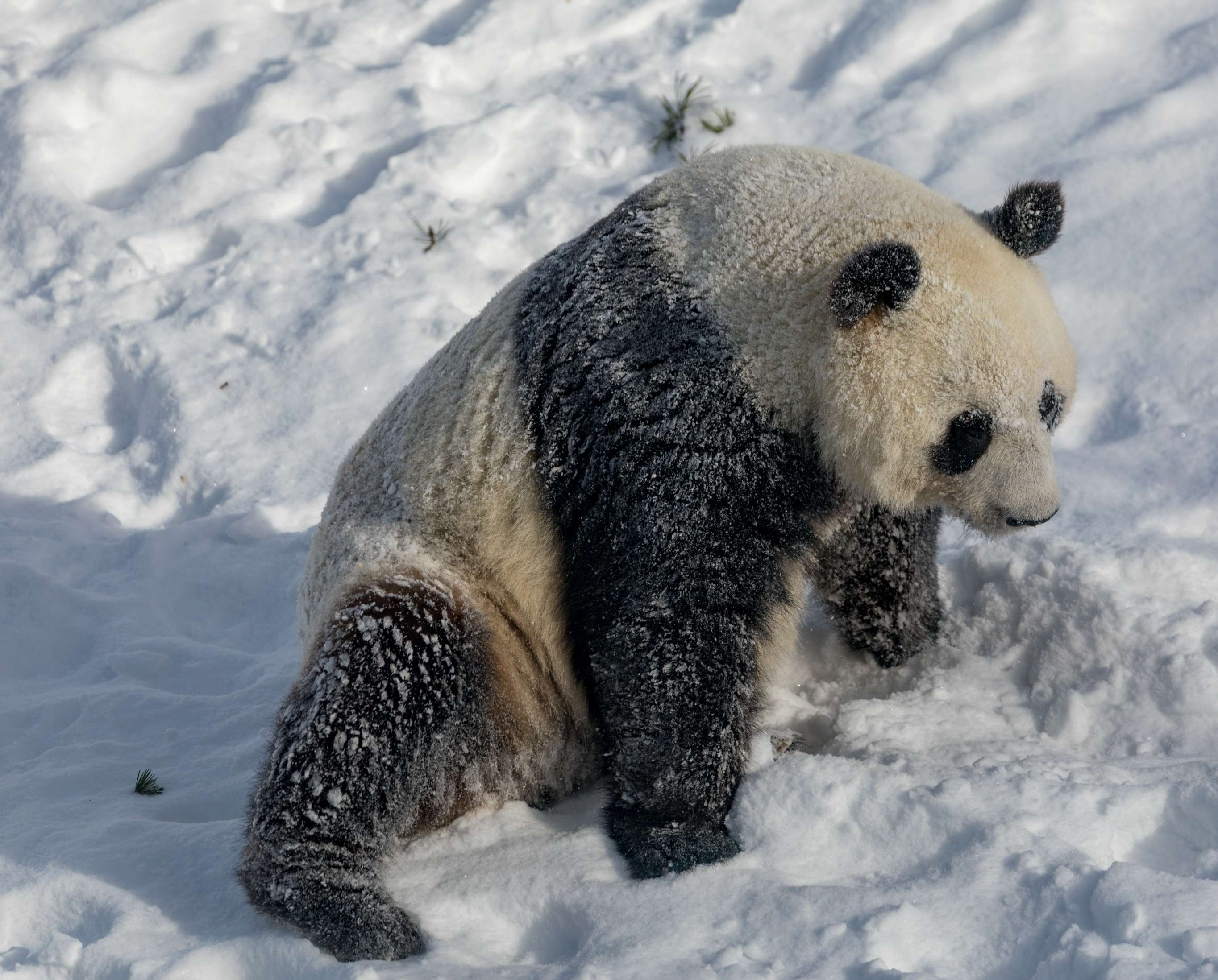 The Snowpanda House of Ähtäri Zoo. Upon examining the complex in November 2017, the top experts of China’s State Forestry Administration’s panda centre stated that the building and the outside enclosures are the best outside of China. The Snowpanda House includes a viewing space where the public can see the pandas spending time in their outdoor and indoor enclosures. (ahtarizoo.fi) There are two pandas, male (Pyry) and female (Lumi). They don't live together, not yet. They arrived to Finland from China in January 2018.